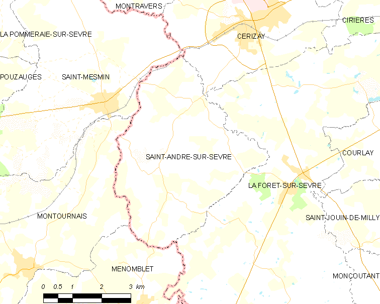 Map of French municipality Saint-André-sur-Sèvre